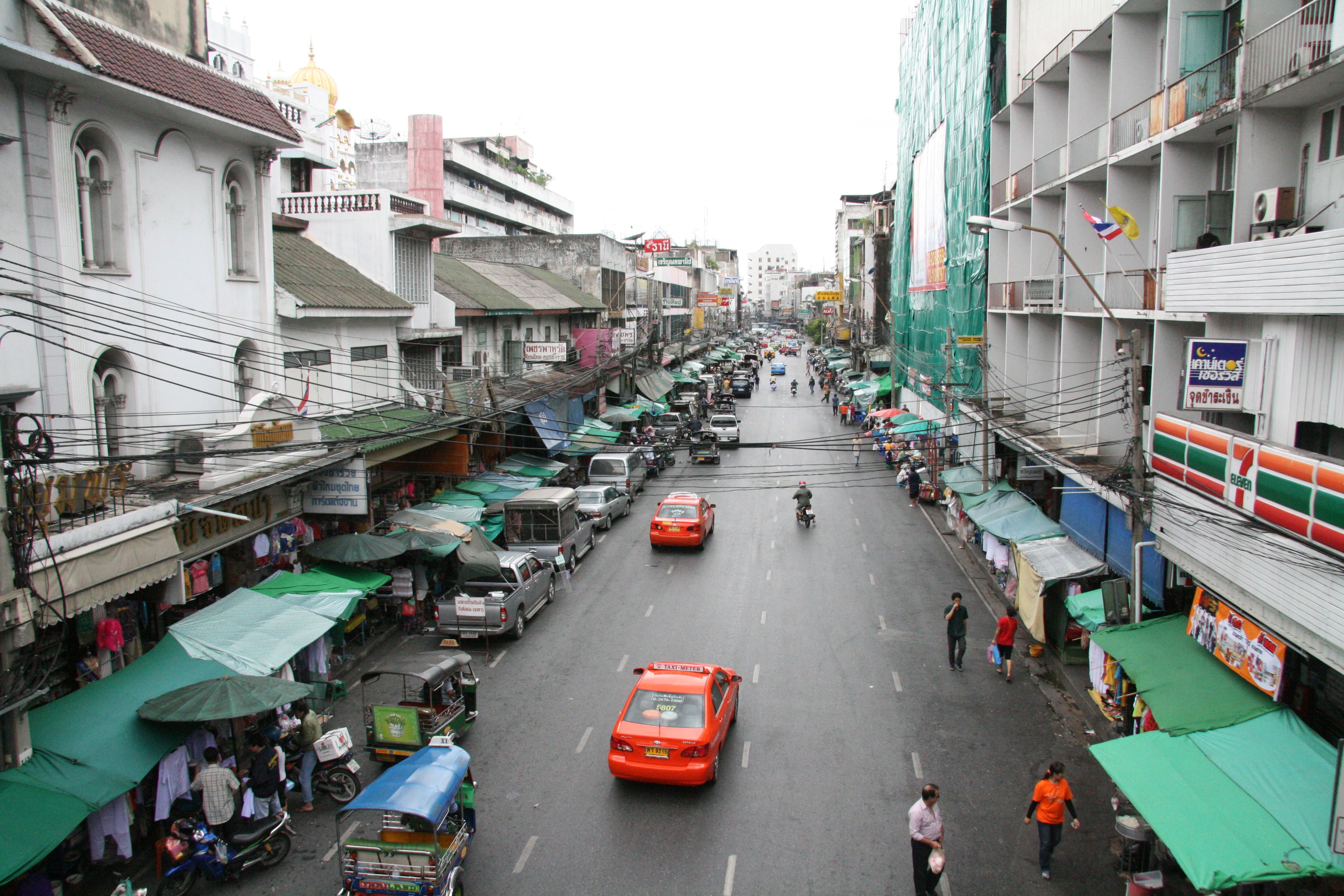 Phahurat Road (occasionally spelled Pahurat Road), Bangkok, Thailand. The road is the center of Phahurat neighborhood, the Indian and South Asian district of Bangkok. The golden dome of Gurudwara Siri Guru Singh Sabha, a Sikh temple, can be seen on the top left of the picture.